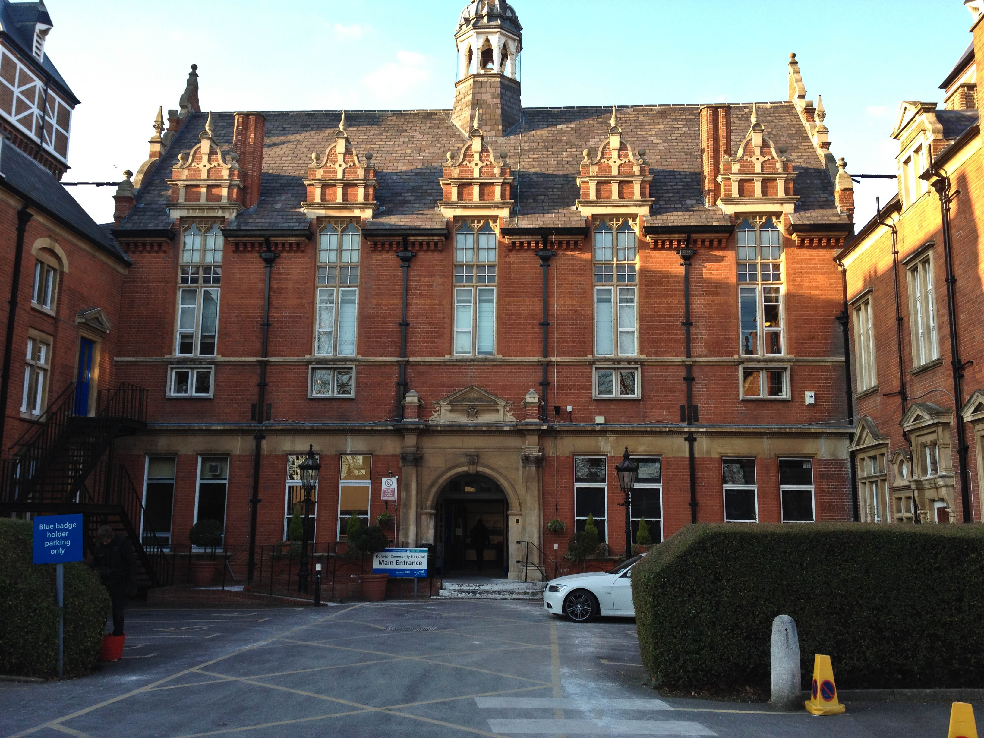 Due to demolished and replaced by a polyclinic type thing. It felt barely used - very long corridor full of old signage including one telling patients where to deposit their used gowns (!). Former workhouse hospital according to the exhibition inside. I longed to explore with my camera... Built in 1885 despite the best efforts of the local NIMBYs! Former Poor Law Infirmary. Closed 2005.